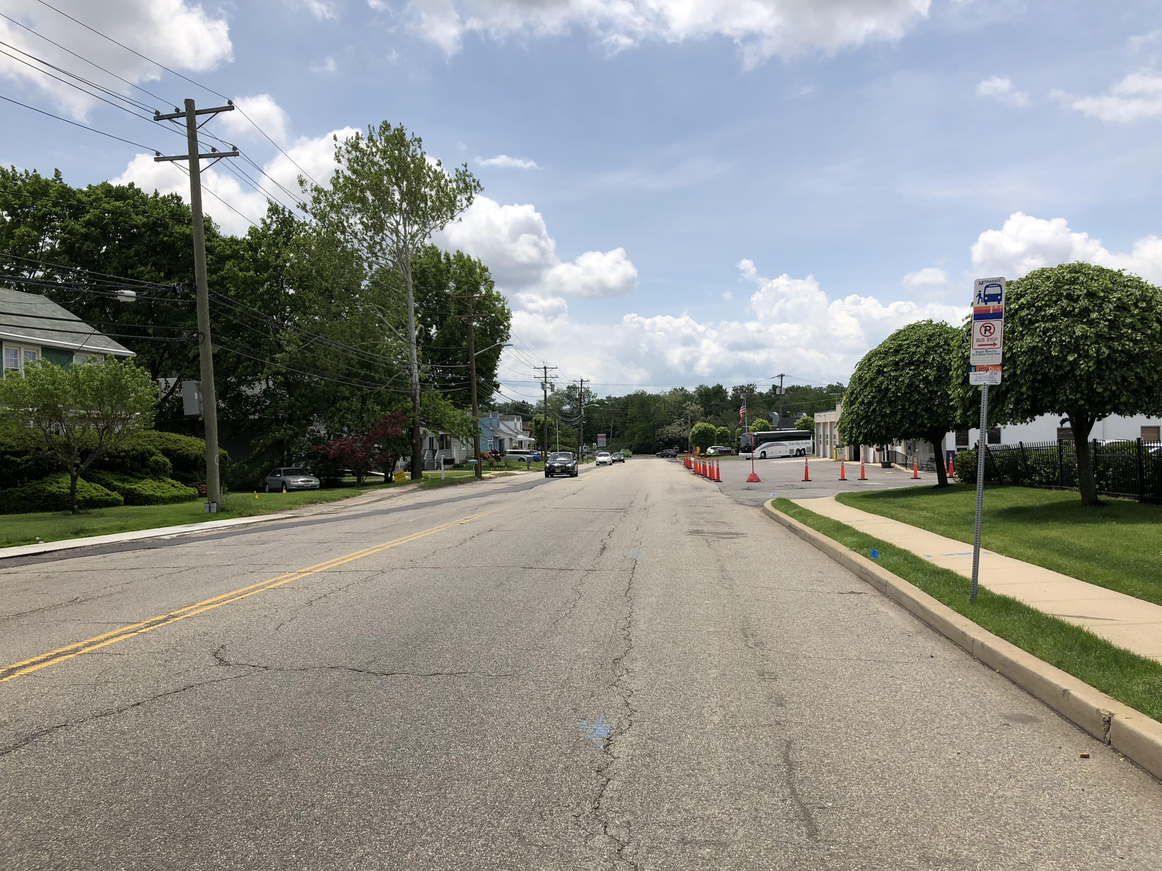 View south along Middlesex County Route 531 (Main Street) at Morris Avenue in Edison Township, Middlesex County, New Jersey